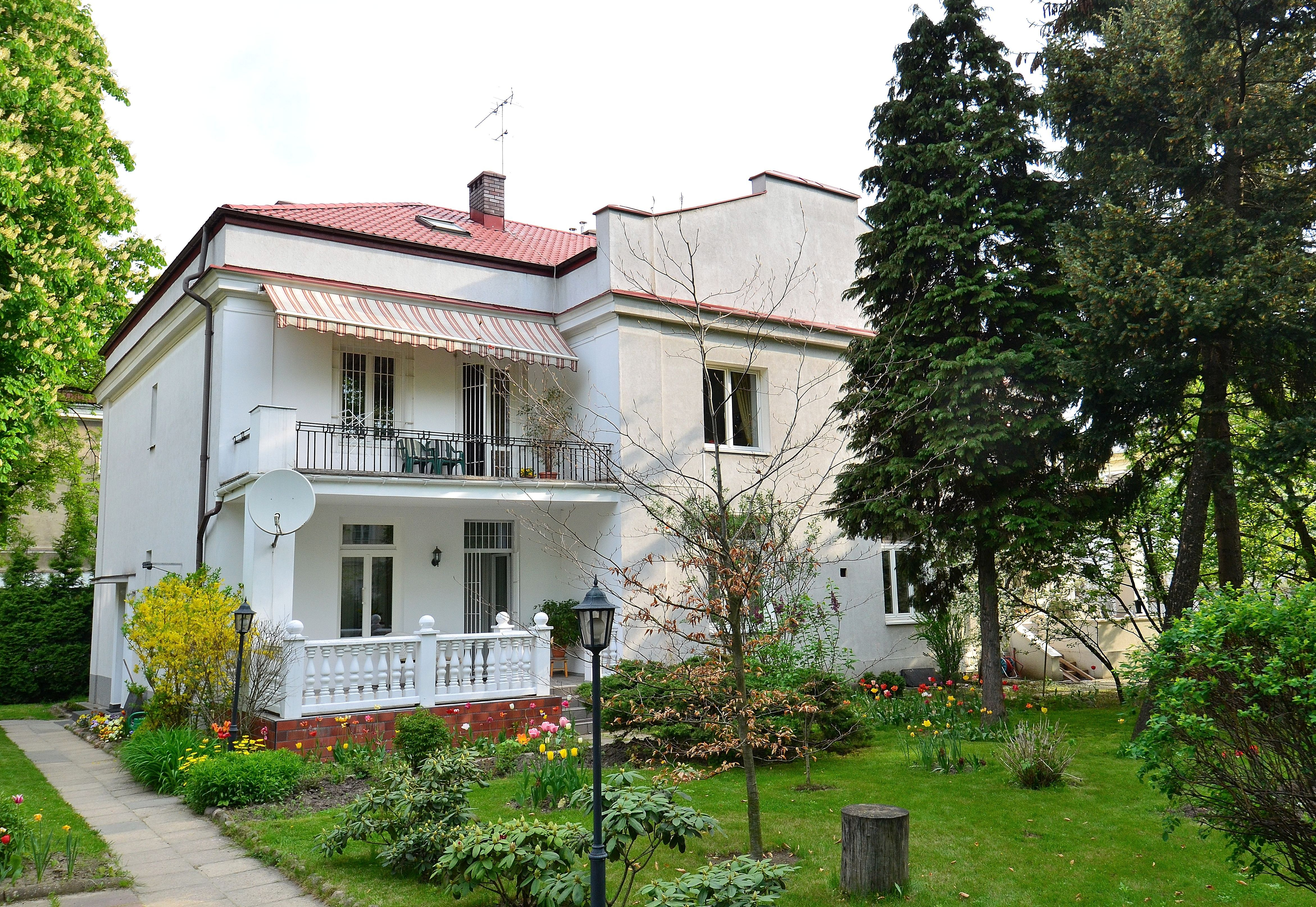 Villa at 46 & 48 Ursynowska Street in Warsaw